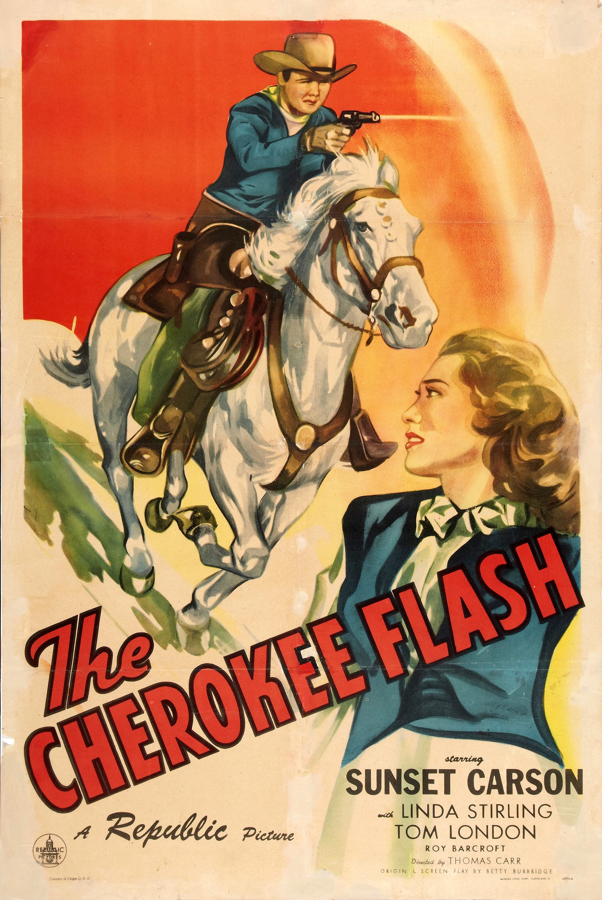 Poster for the American Western film The Cherokee Flash (1945) with Sunset Carson and Linda Stirling that was directed by Thomas Carr. No copyright notice on original poster (as can be seen in this high resolution image) so the poster is in the public domain.